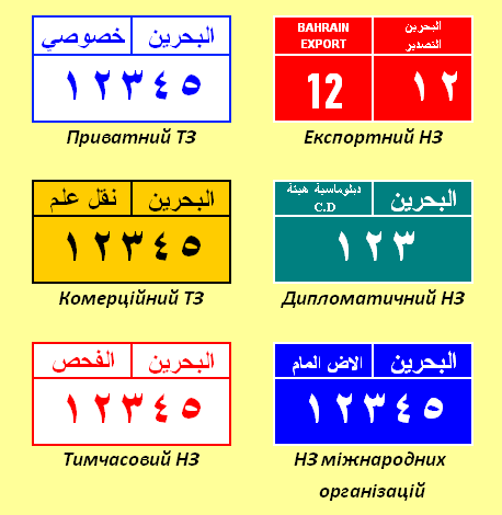 1972 license plate series from Bahrain